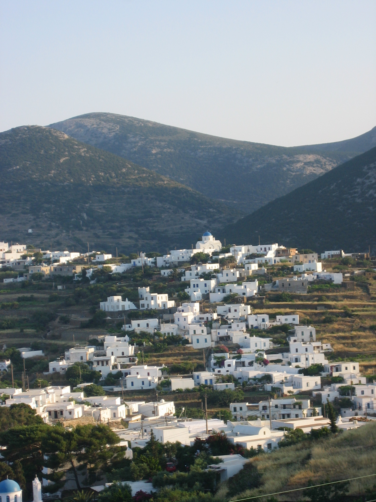 Thje town of Apollonia on the island of Sifnos in the Aegean sea